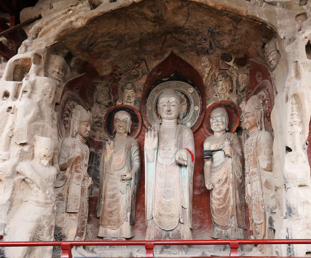 Huangze Temple Grottoes